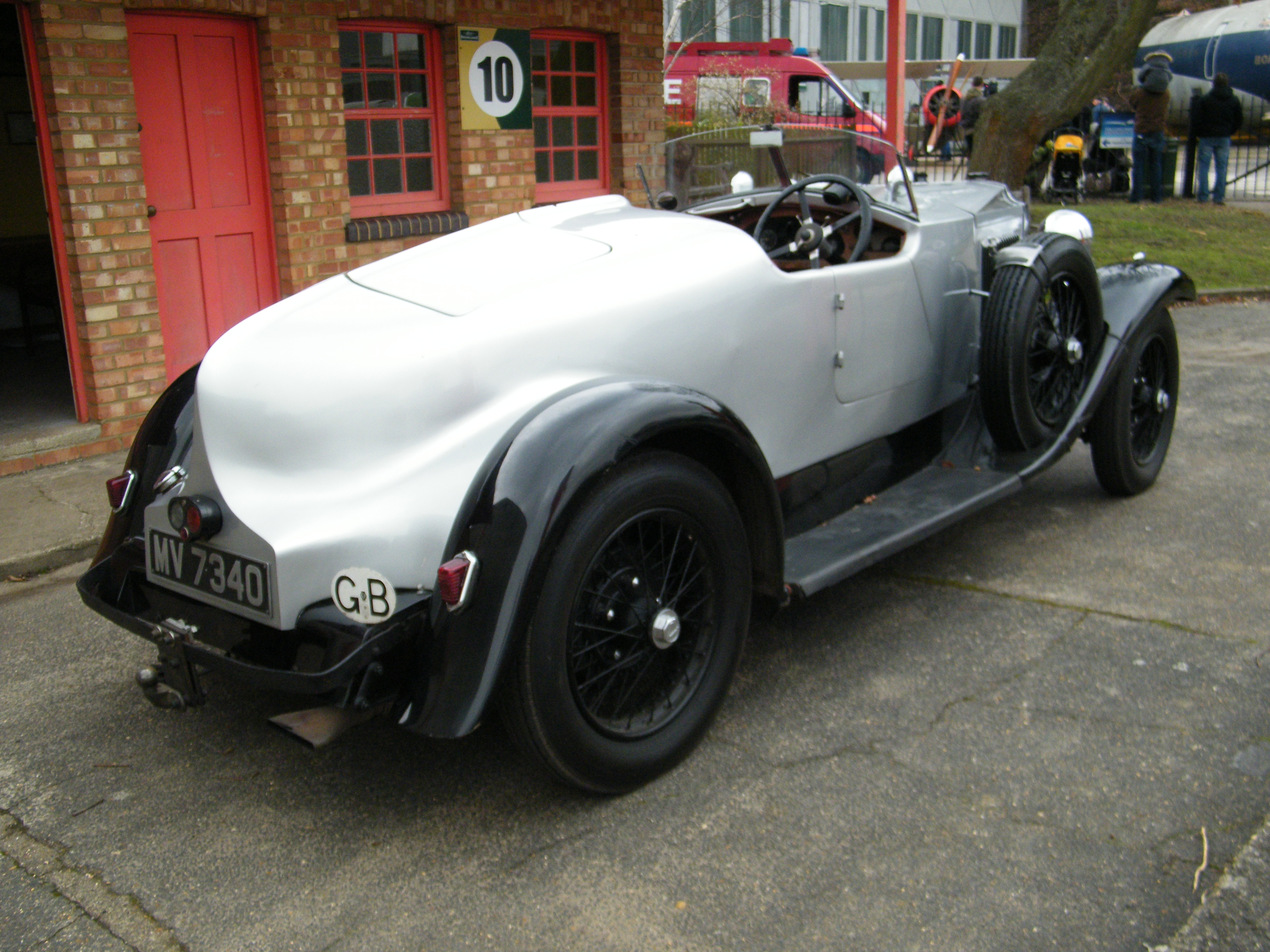 1930 Vauxhall 20-60 T Hurlingham 2-seater - VSCC New Year Driving Tests (370) Stunning aluminium inverted 'boat tail' bodywork.